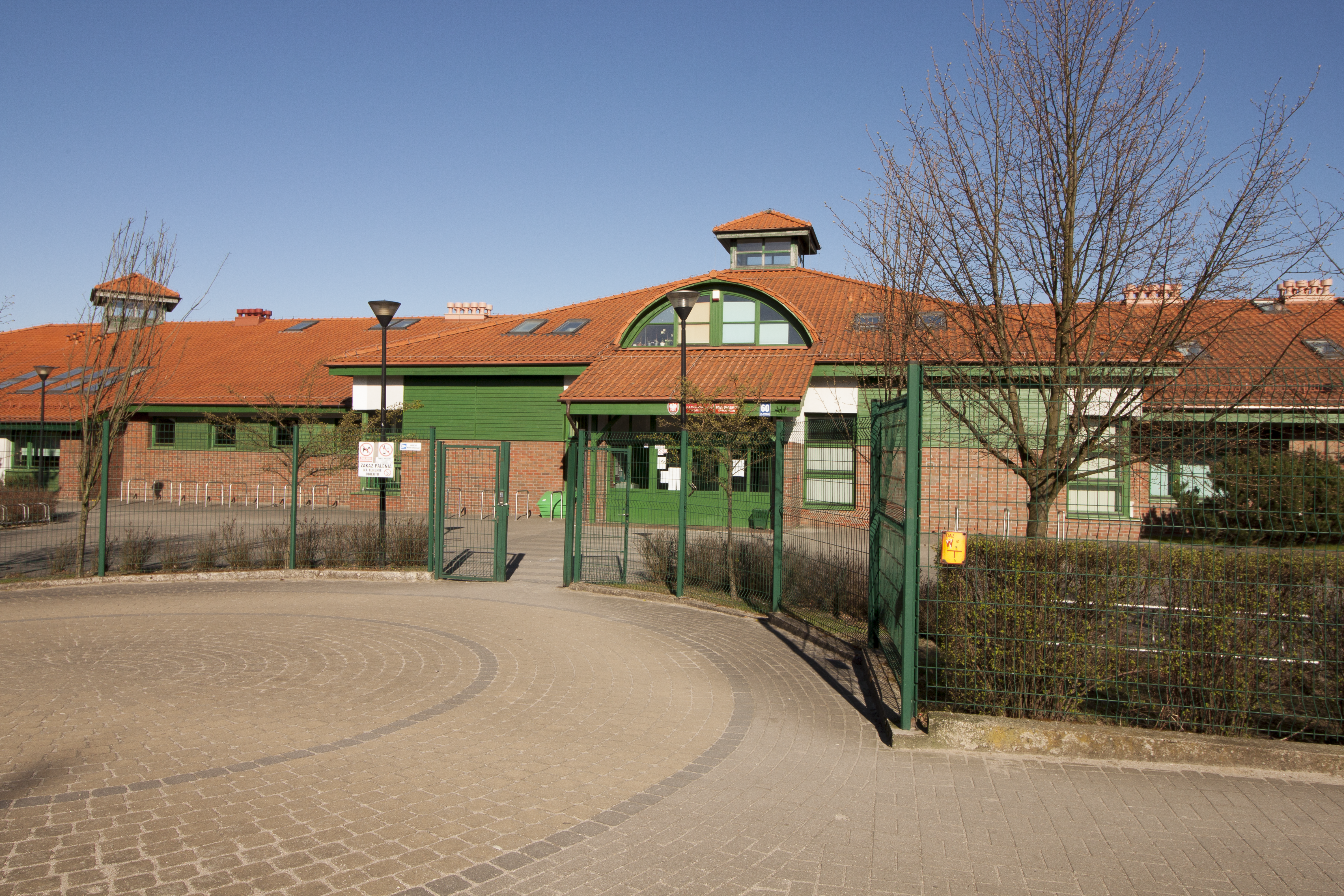 The front entrance of the 48th elementary school in Gdynia